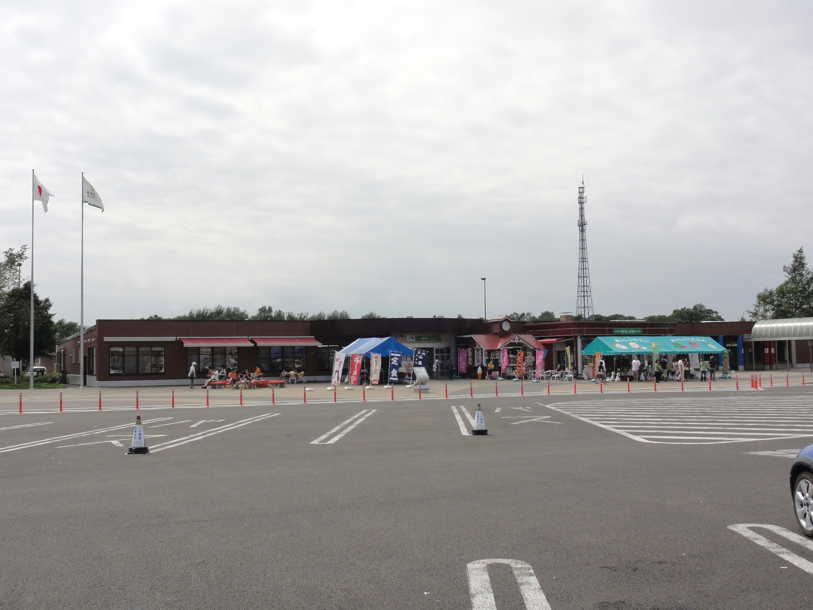 Wattsu Parking Area on the Hokkaidō Expressway outbound line for Sapporo